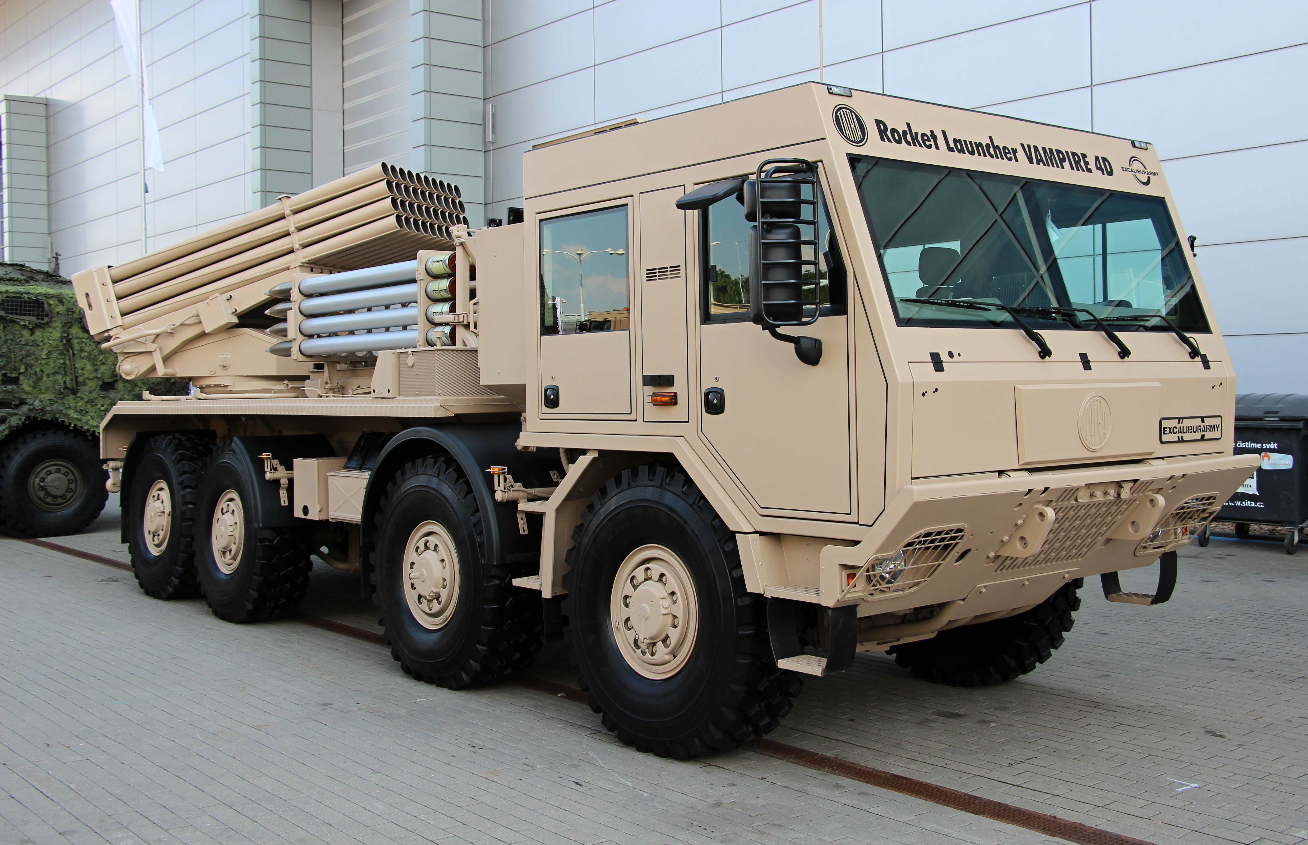 RM-70 Vampire 4D 122mm self-propelled MLRS. IDET 2017, Brno Exhibition Center, Czech Republic.